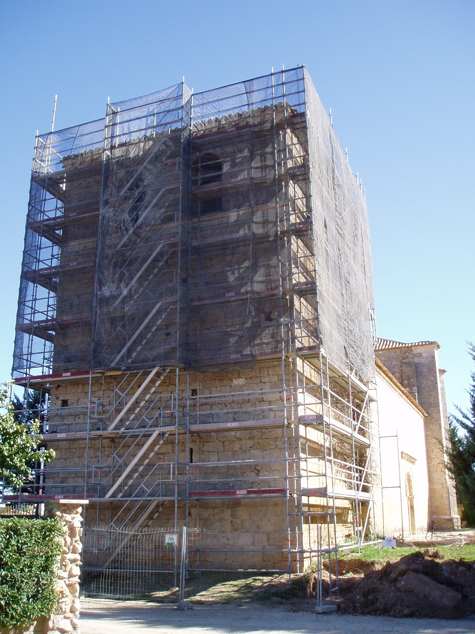 San Nicolás de Bari church's tower in restoration in Sinovas (Spain).